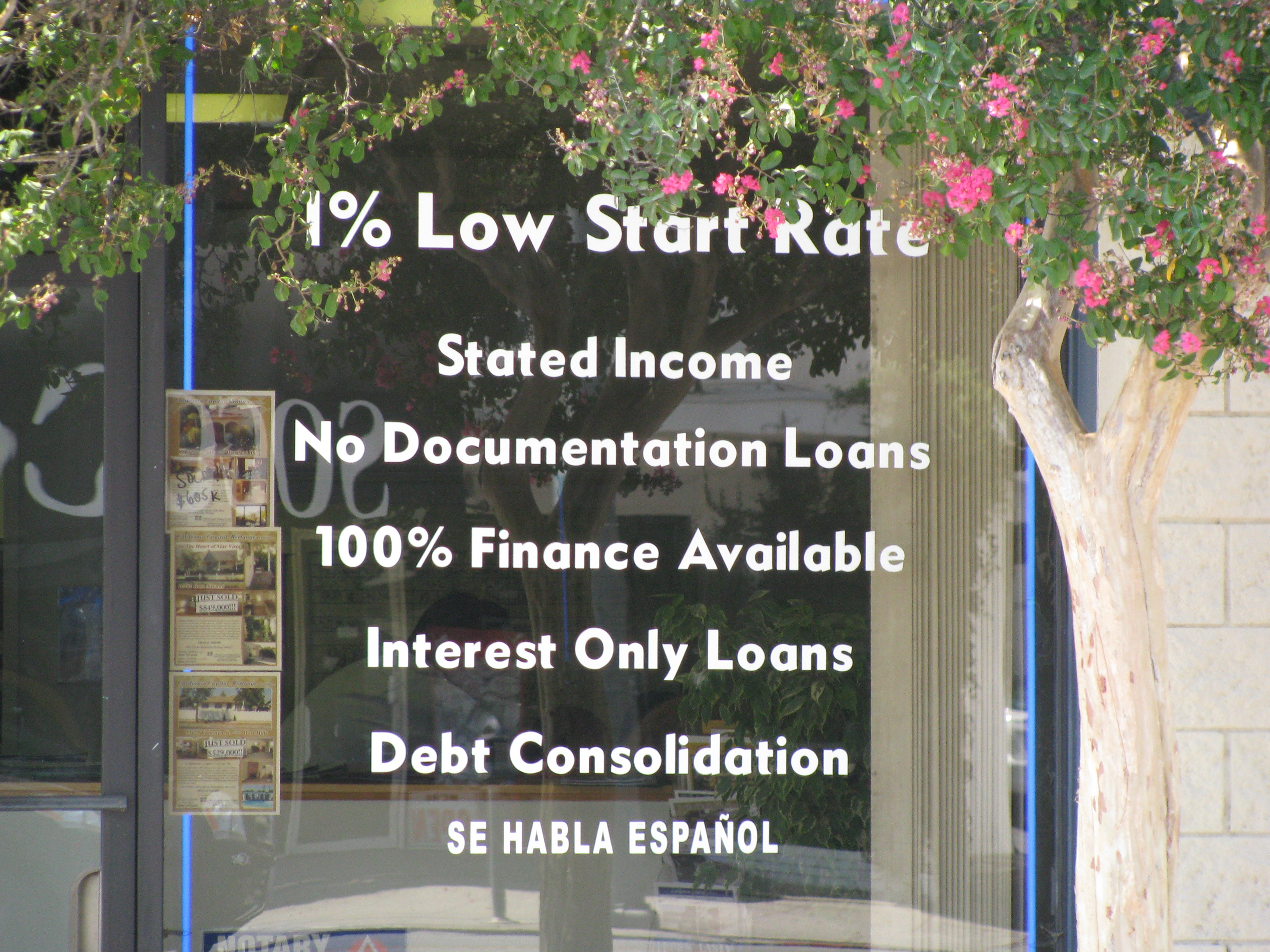 Offering subprime mortgage.